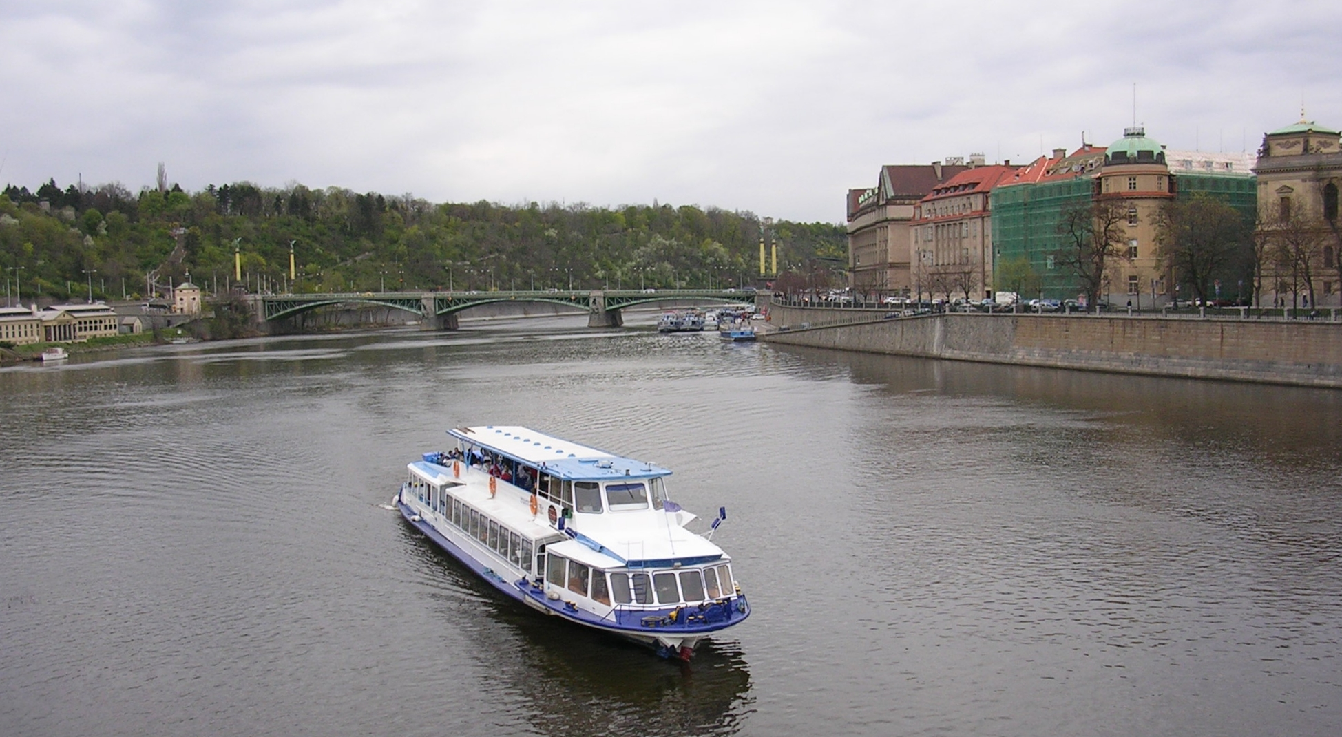 Prague, the Czech Republic.